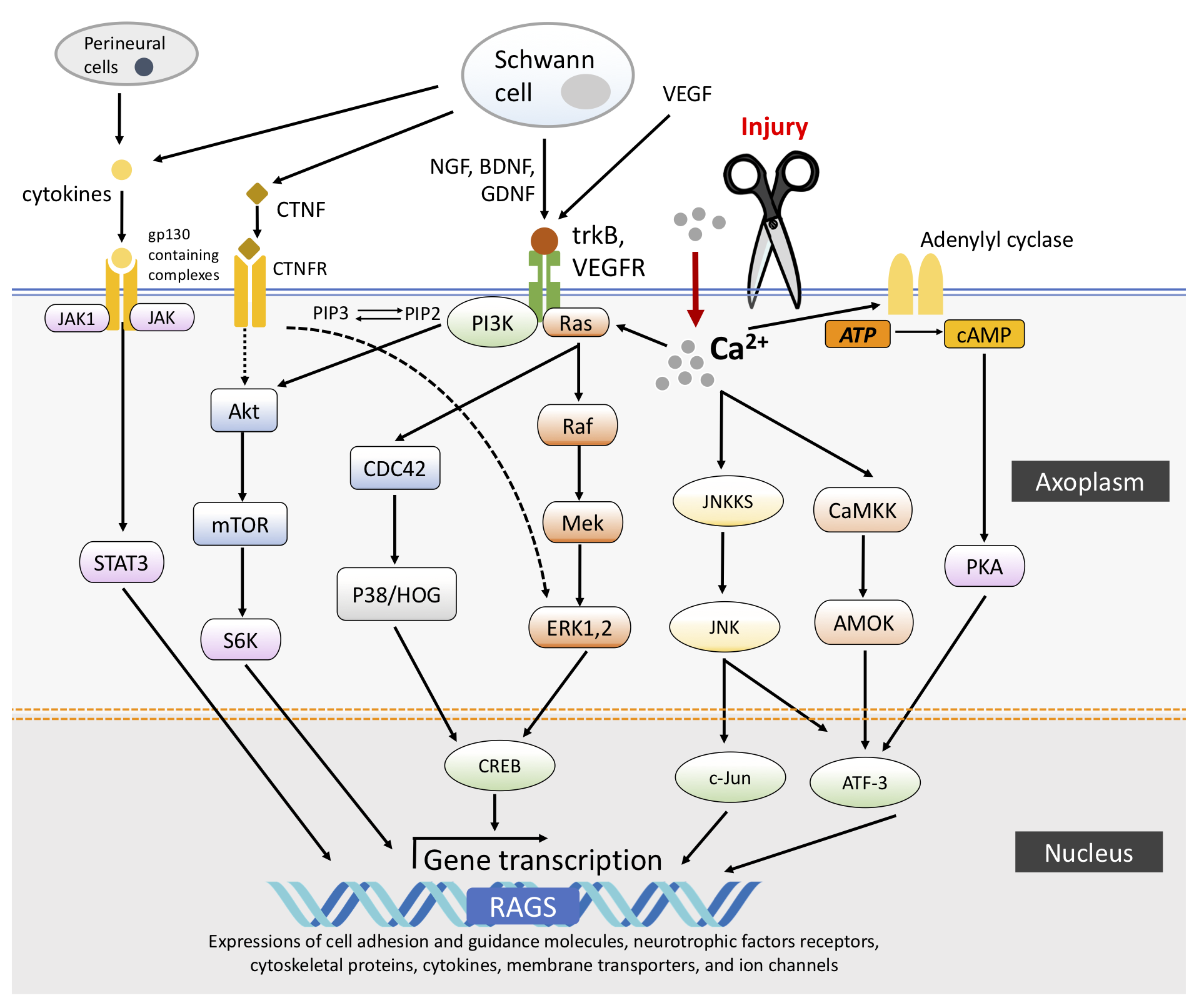 Signaling pathways that are upregulated in response to nerve injury.